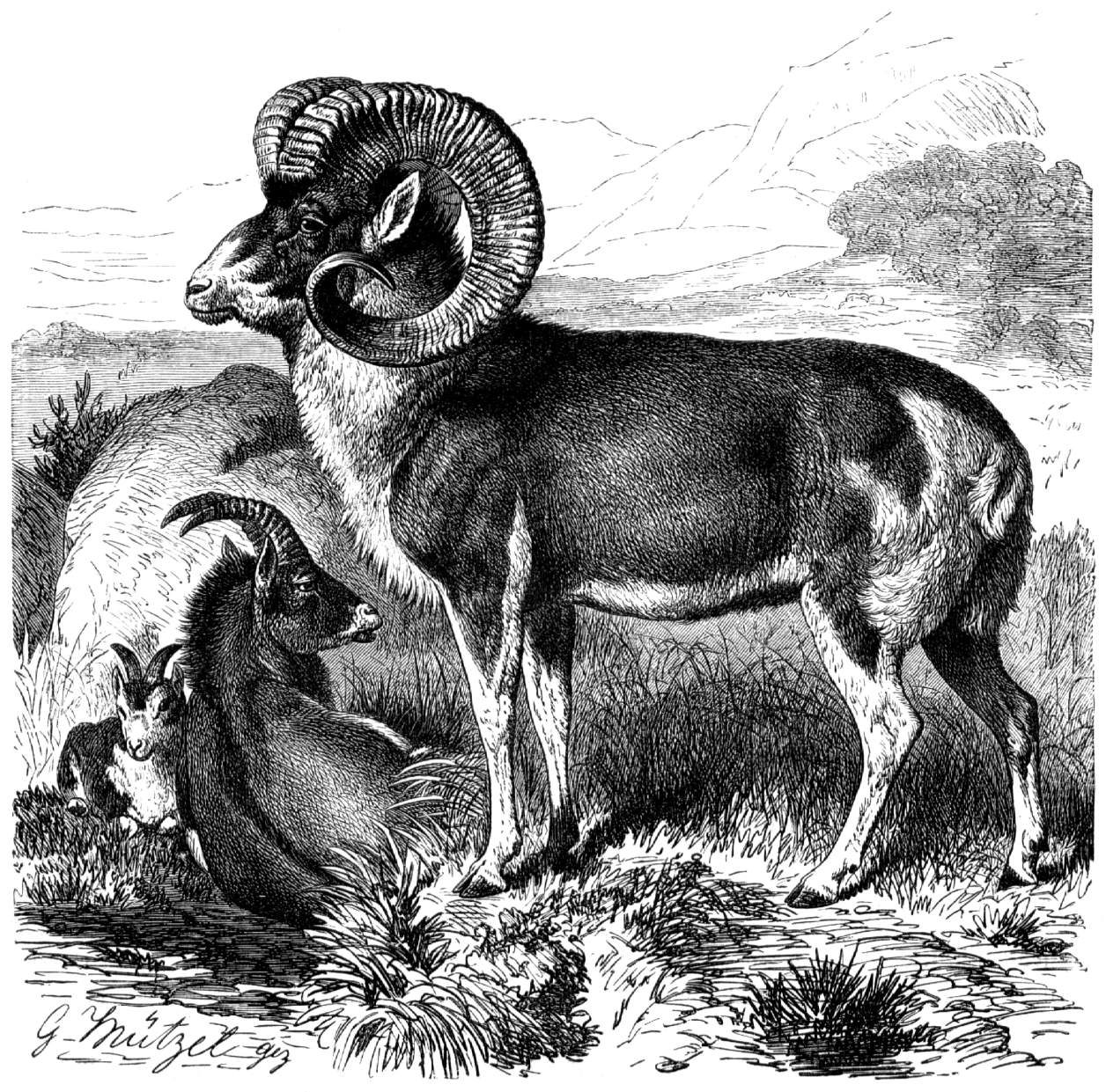 Engraved print of Marco Polo sheep from 1883 publishing of